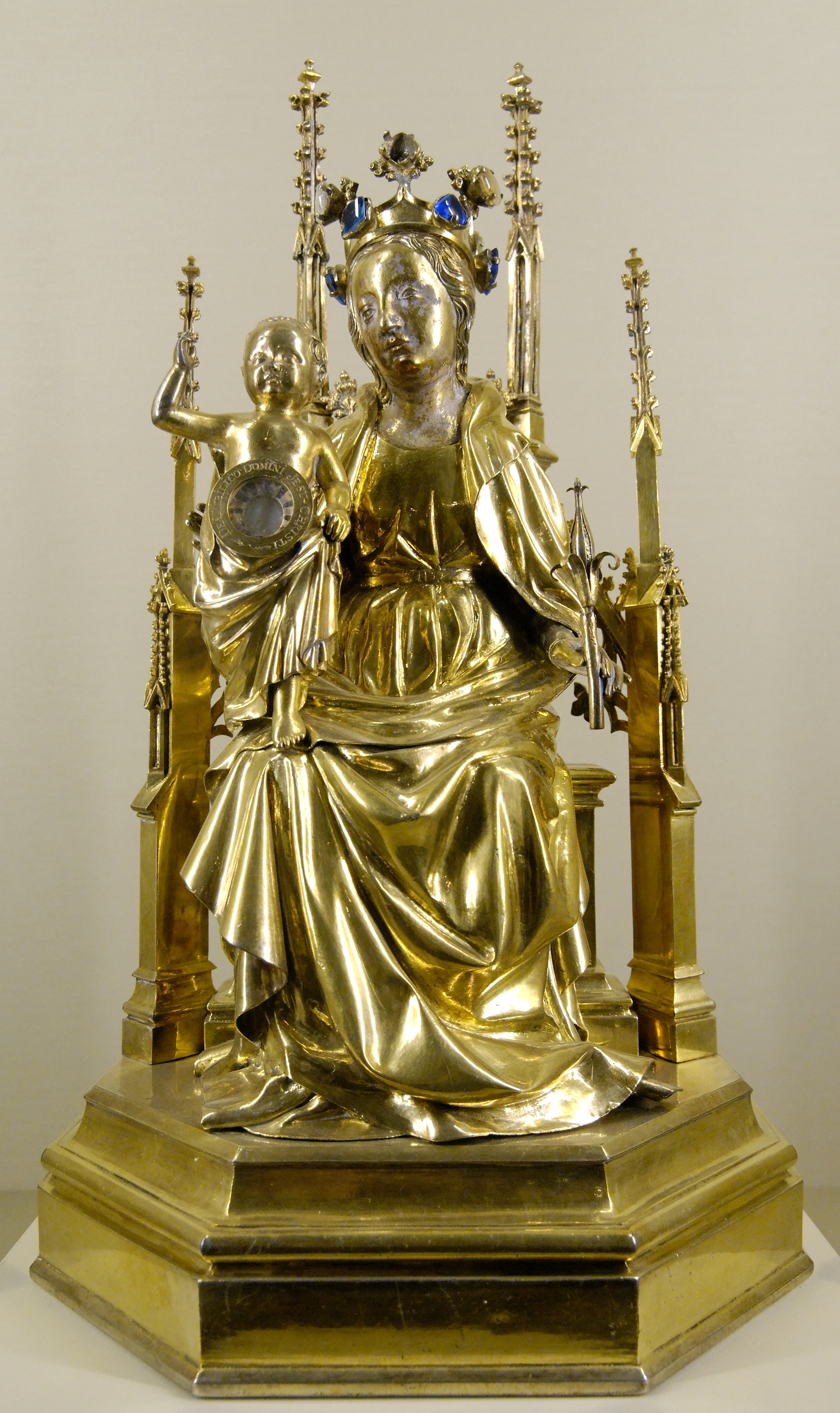 Reliquary of the umbilicus of Christ, representing a Madonna and Child (the glass case is a modern work), France (Paris?).